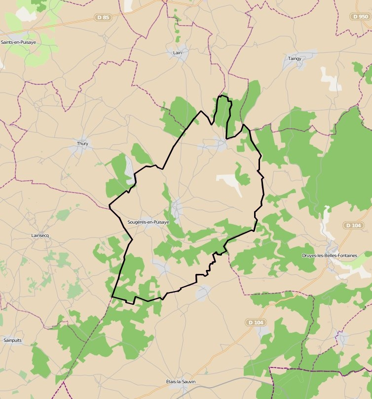 Geolocalisation: top: 47.63508 bottom: 47.49609 left: 3.25057 right: 3.44043